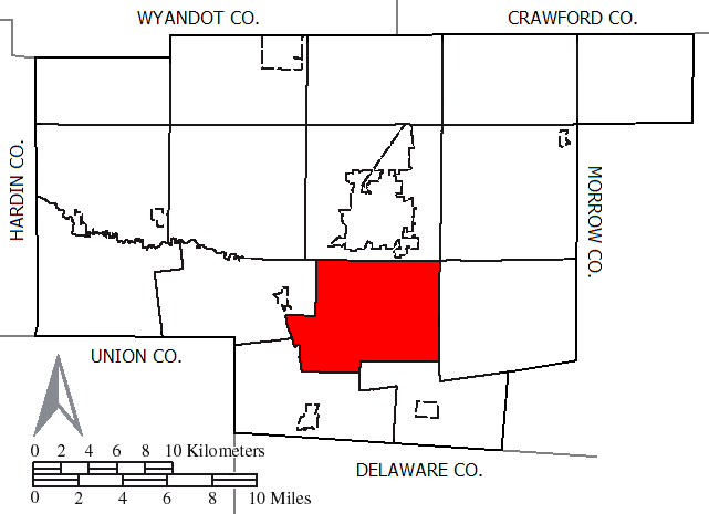 Made by the US Census and modified by myself to highlight the township